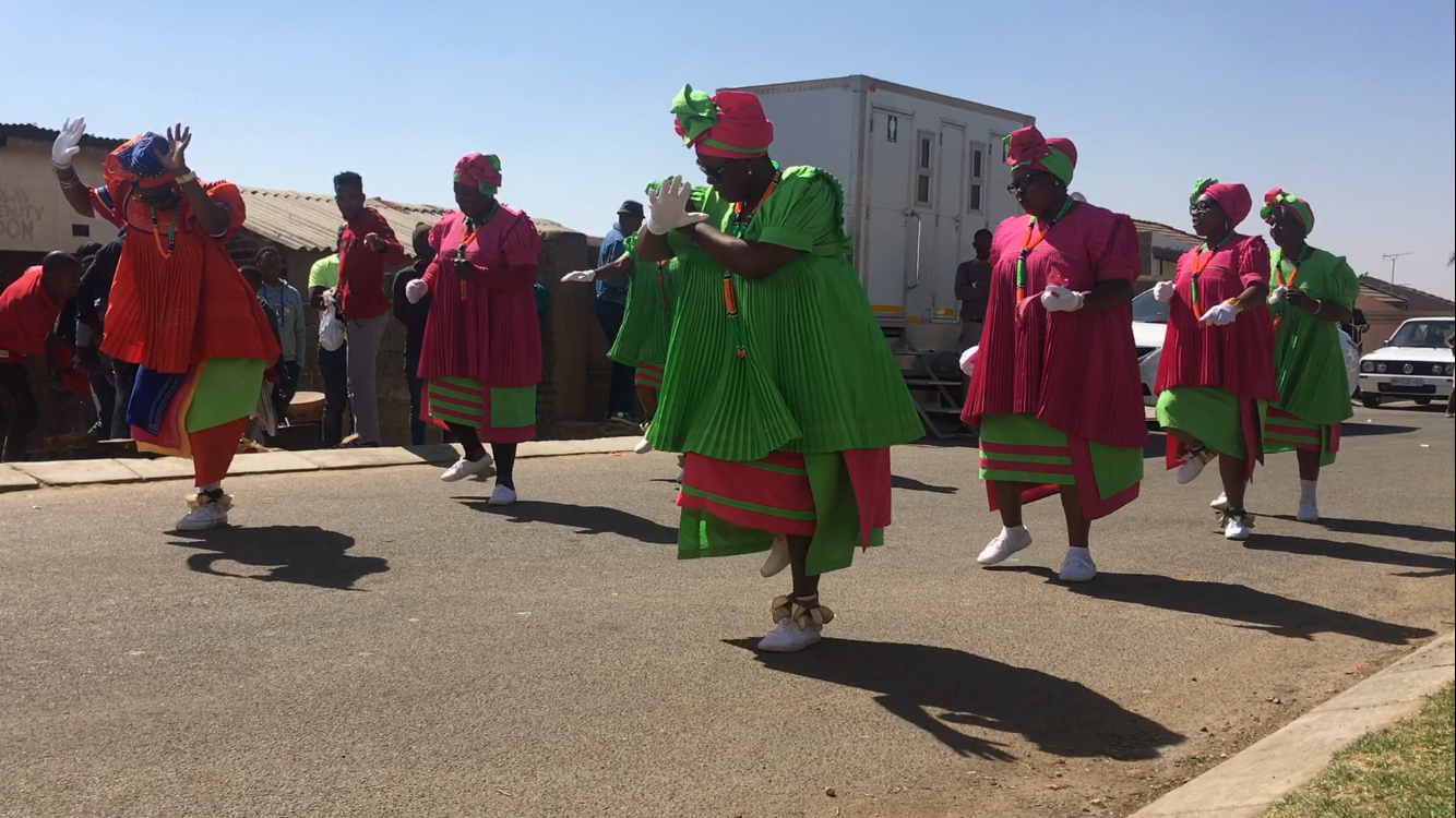 Traditional Pedi Dancers at my friends wedding, they were performing there all the way from Limpopo This is an image of "African people at work" from South Africa